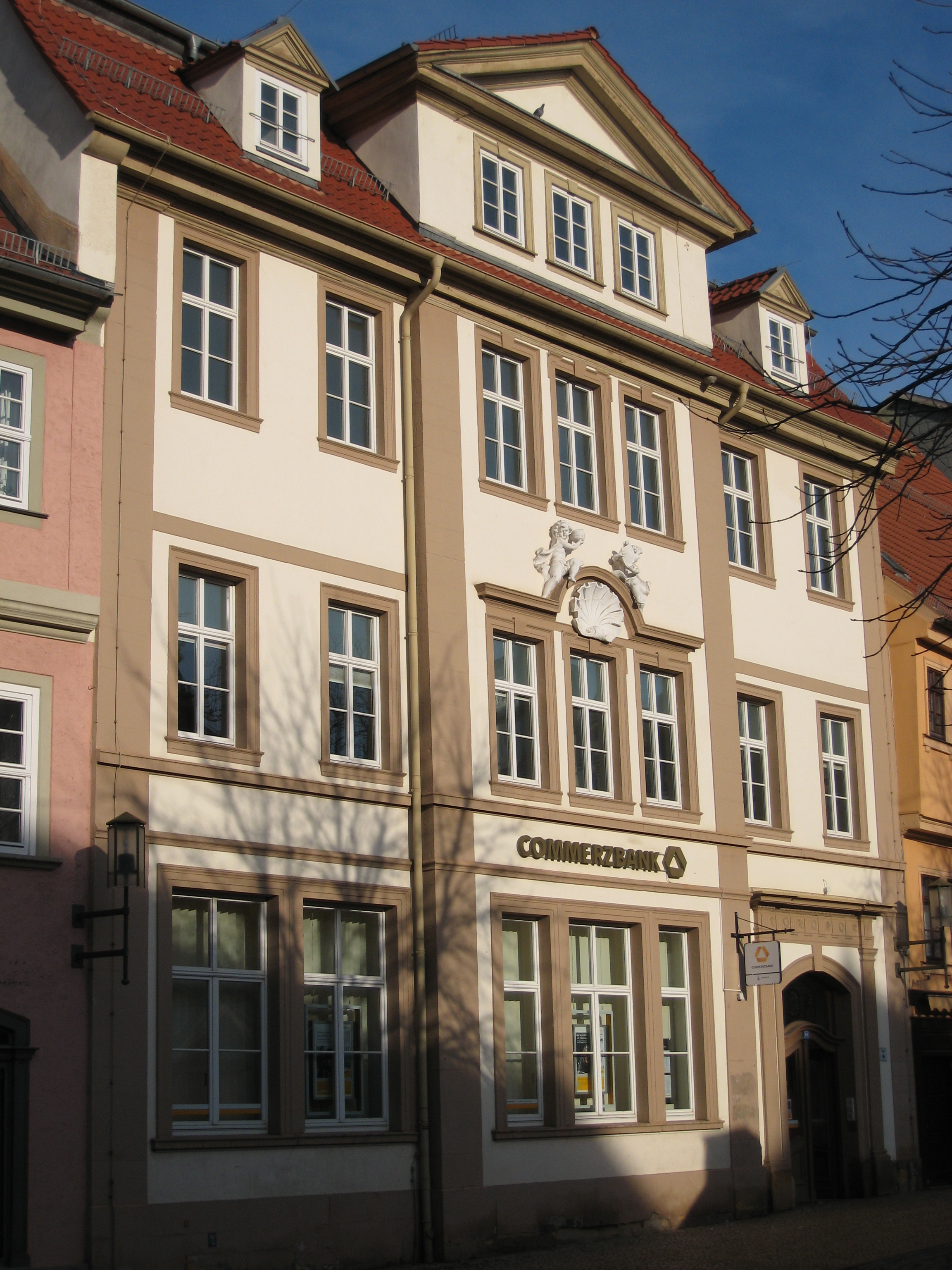 Hauptmarkt 41 Gotha